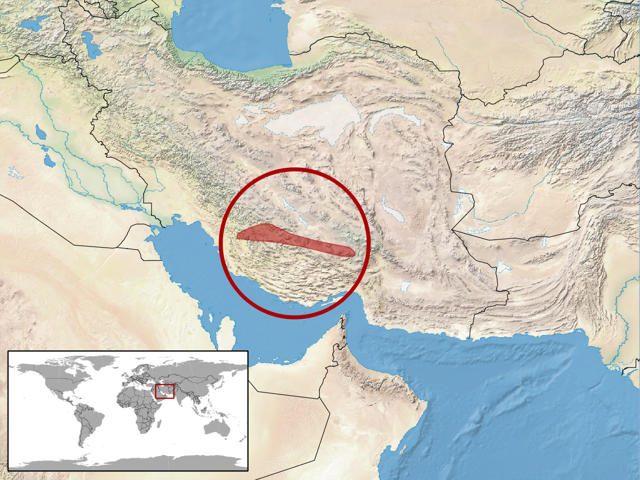 geographic distribution of Ophiomorus persicus